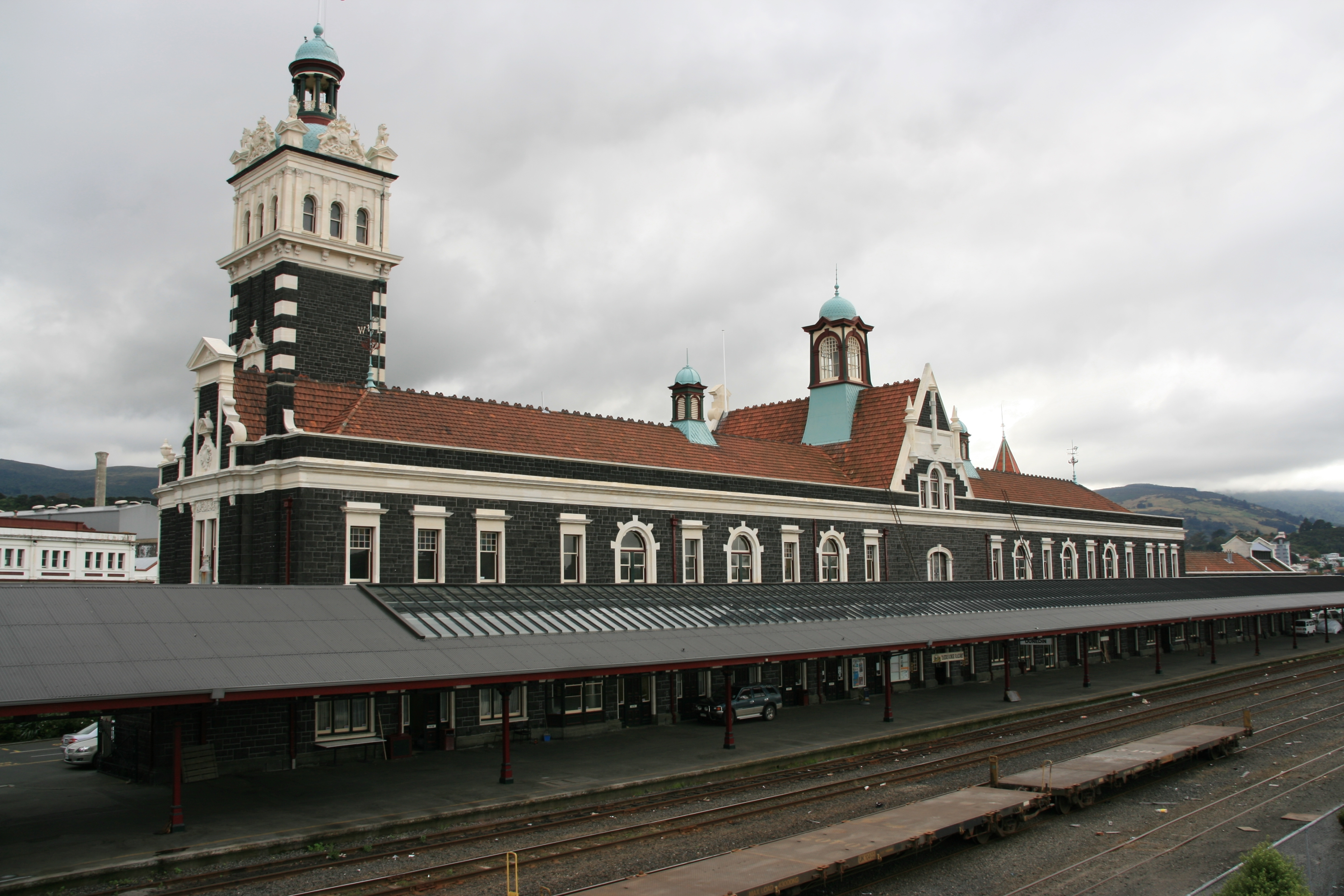 Dunedin Railway Station, New Zealand. Looking north from the pedestrian footbridge over the rear (eastern) side of the station.